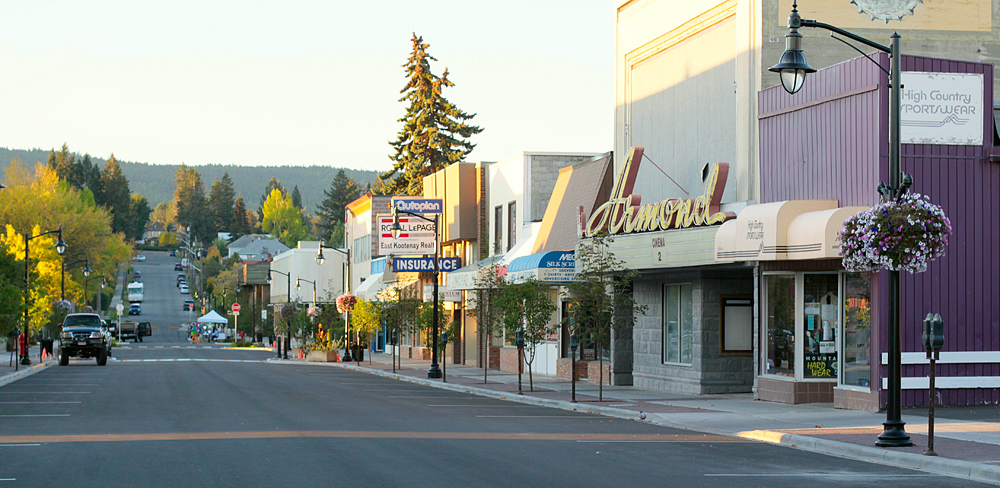 Cranbrook, BC, in the East Kootenays.